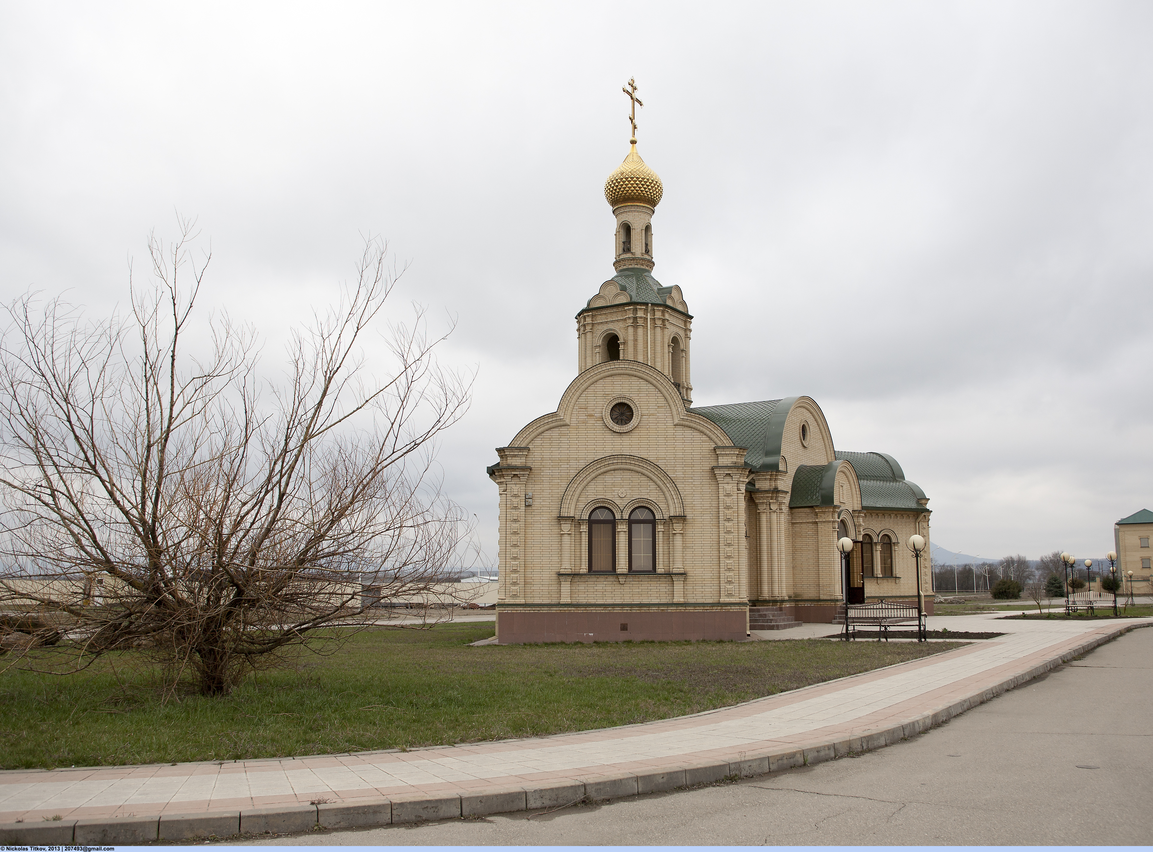 Церковь святого Великомученика и Победоносца Георгия в Ульяновке